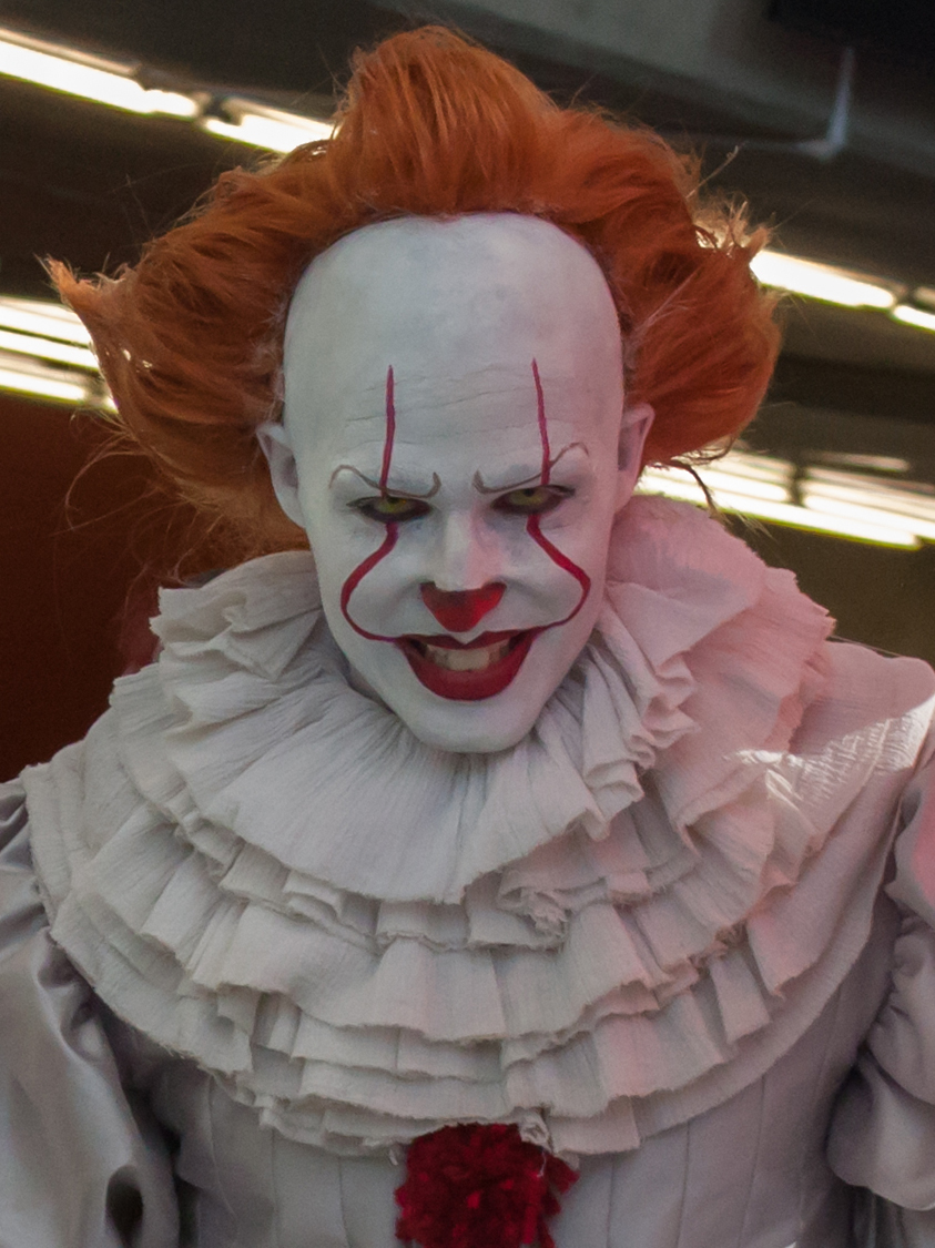 Pennywise cosplay at 2017 Montreal Comiccon.